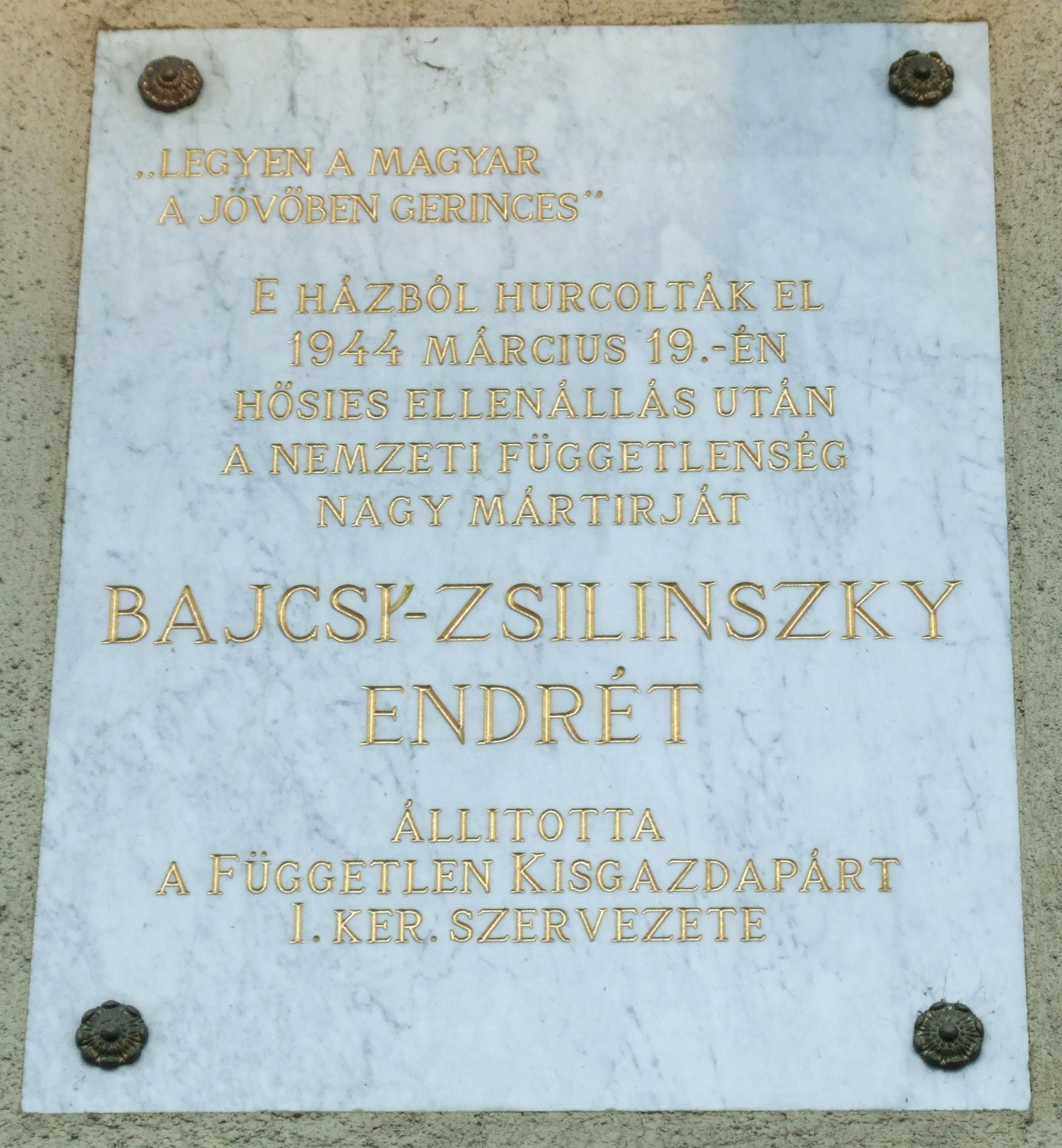 Endre Bajcsy-Zsilinszky commemorative plaque in Budapest District I, Attila Street No 37